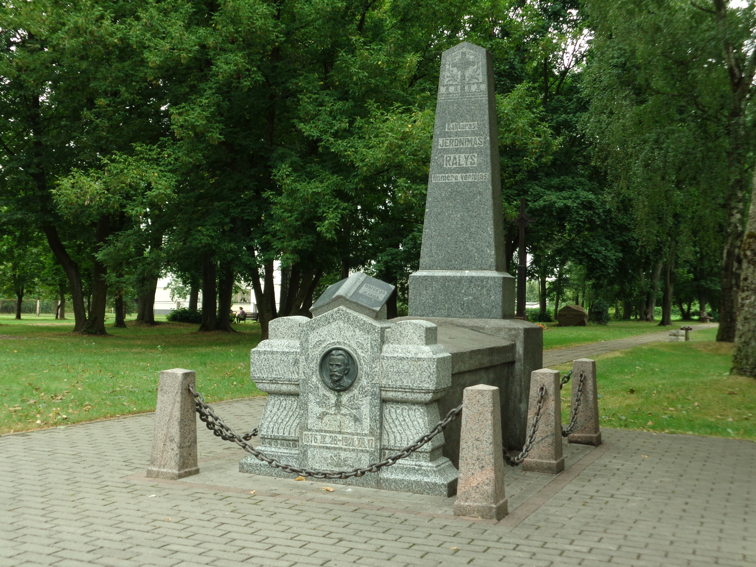 Jeronimas Ralys' grave, 2014